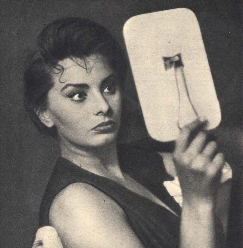 Italian actress Sophia Loren in Comacchio, in the set of the Italian film La donna del fiume